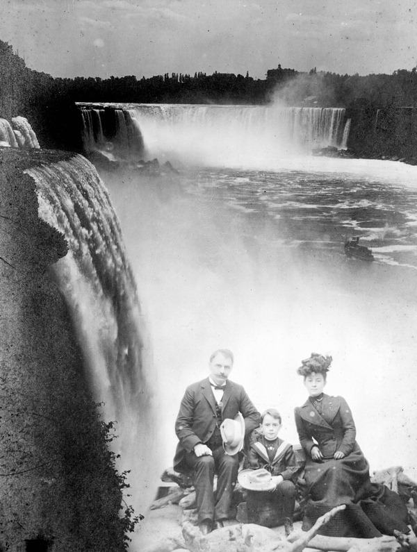 Photo of Governor William Sherman Jennings and family posing in front of Niagara Falls from the State Archives of Florida: the Florida Photographic Collection, ca. 1901.